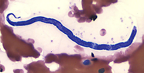 "Microfilaria of L. loa in a thin blood smear, stained with Giemsa."